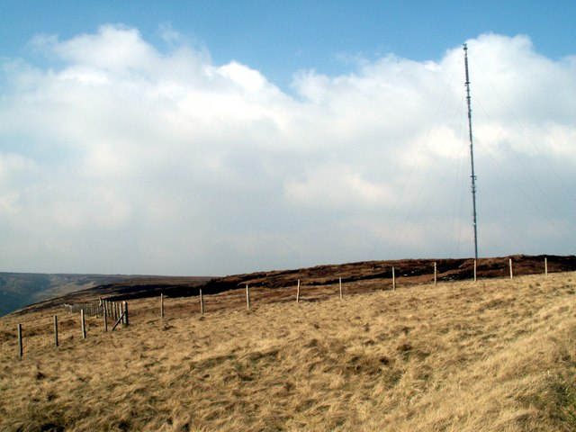 Holme Moss Transmitter Heyden Head can be seen in the distance at the bottom third left hand skyline. This is the point at which Heyden Brook starts to form.